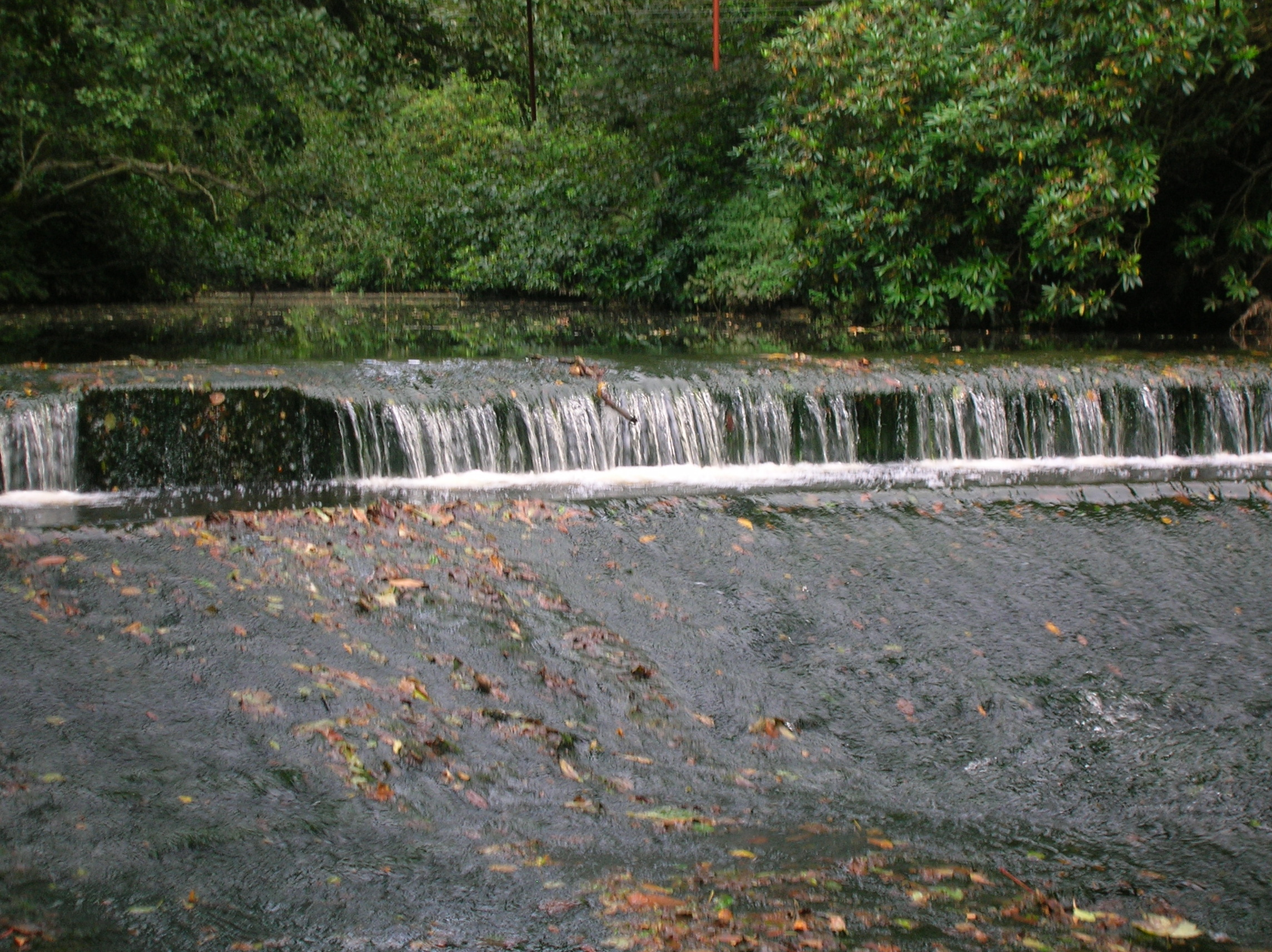 The Lugton Water weir in Eglinton Country Park, Kilwinning, North Ayrshire, Scotland.